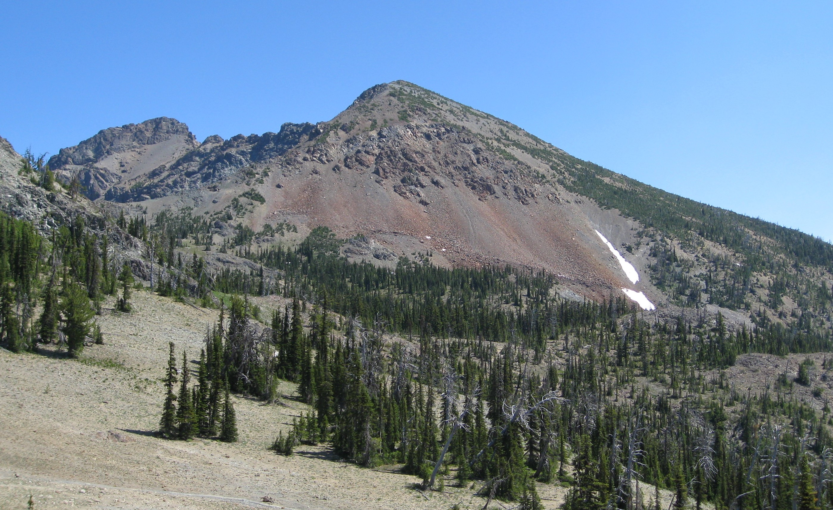 Fortune Peak, from southwest. Wenatchee Mountains